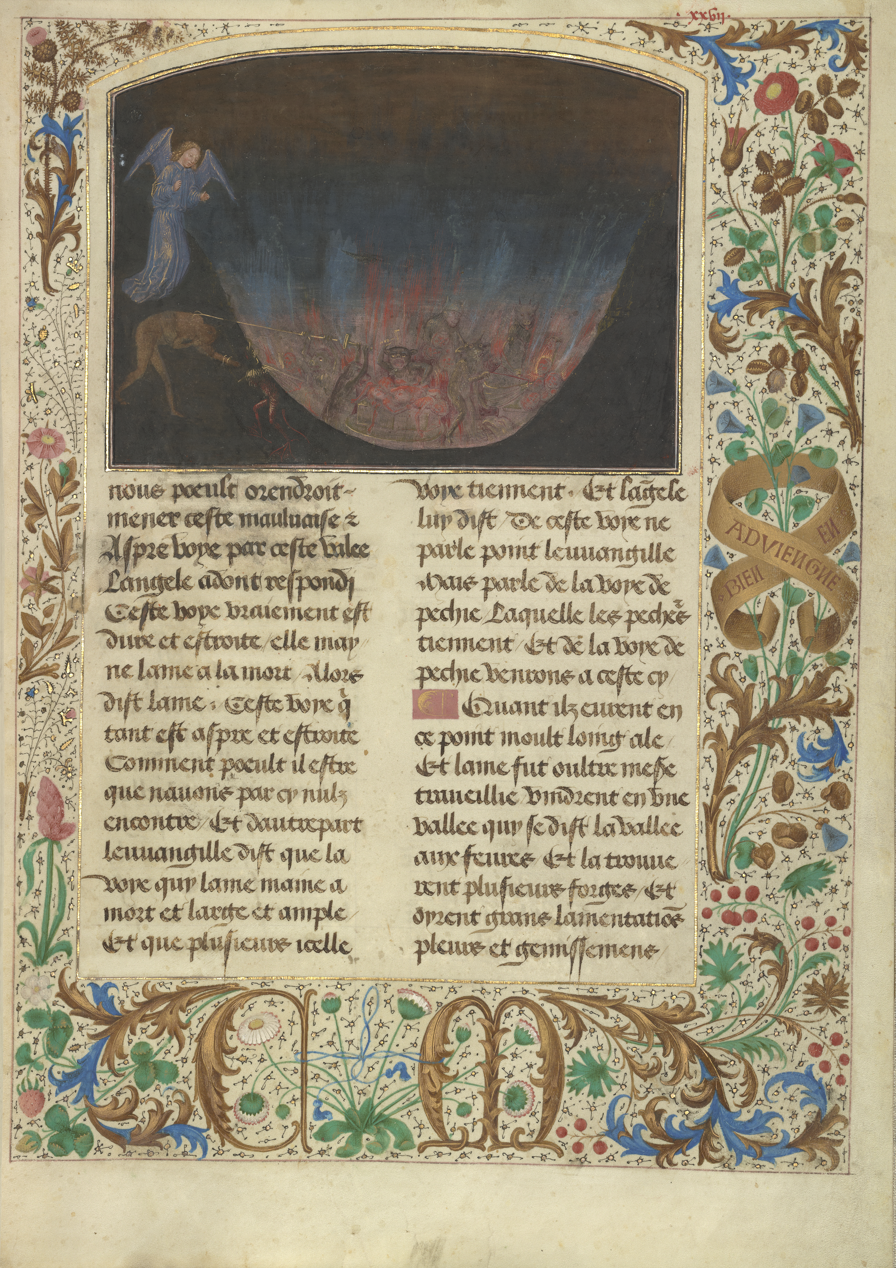 A page from the Getty Tondal found in the Getty Museum